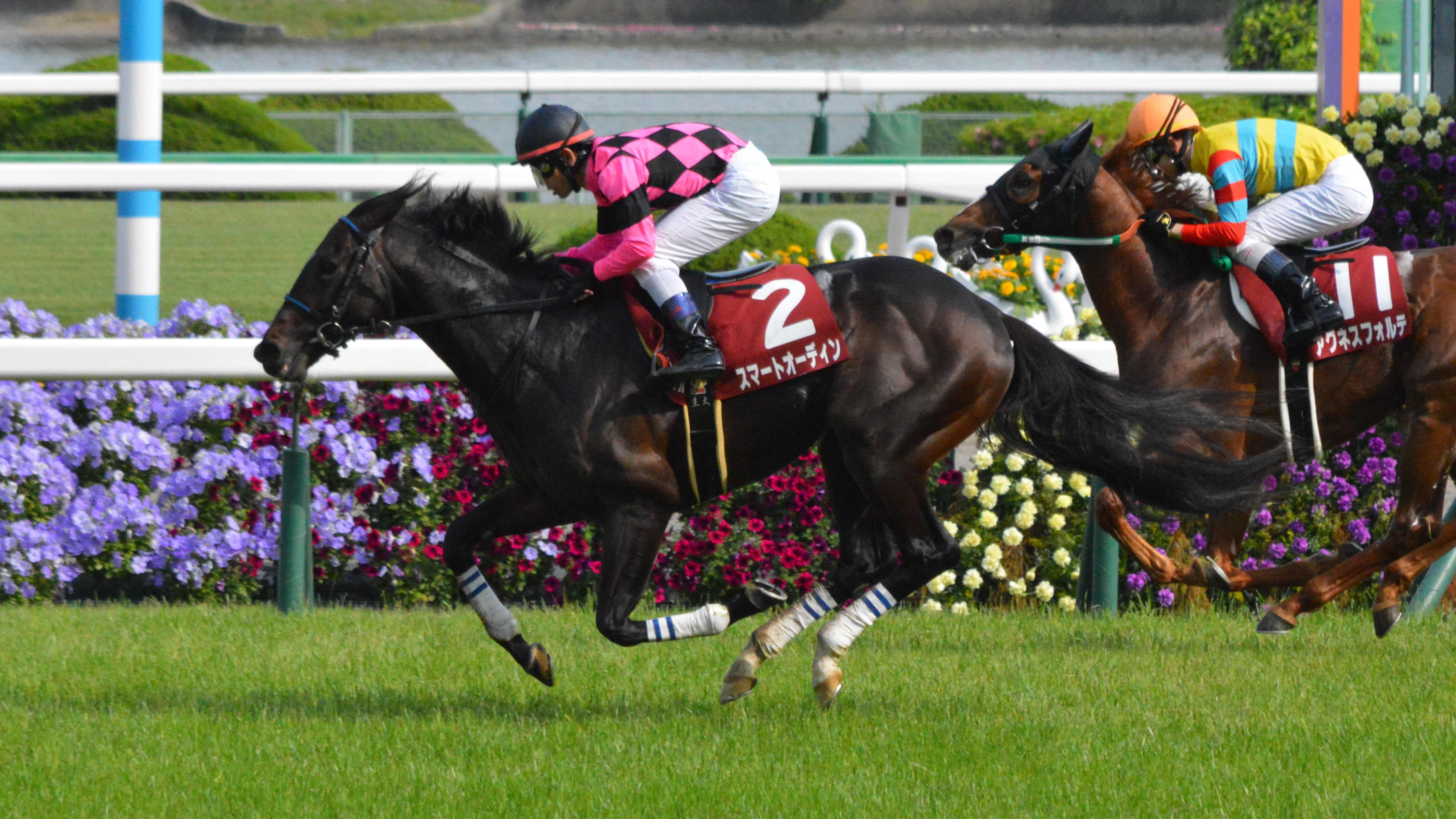 Japanese race horse Smart Odin at Kyoto racecourse. Kyoto (JPN) 7 May 2016 Kyoto Shimbun Hai (Grade 2) (3yo) (Turf) 1m3f Firm RankHorse NameOddsAgeWgtJockeyTrainer1stSmart Odin (JPN)EvensFC38-11Keita TosakiKunihide Matsuda2ndAgnes Forte (JPN)41/1C38-11Kohei MatsuyamaHiroyuki Nagahama3rd - 14th/omission